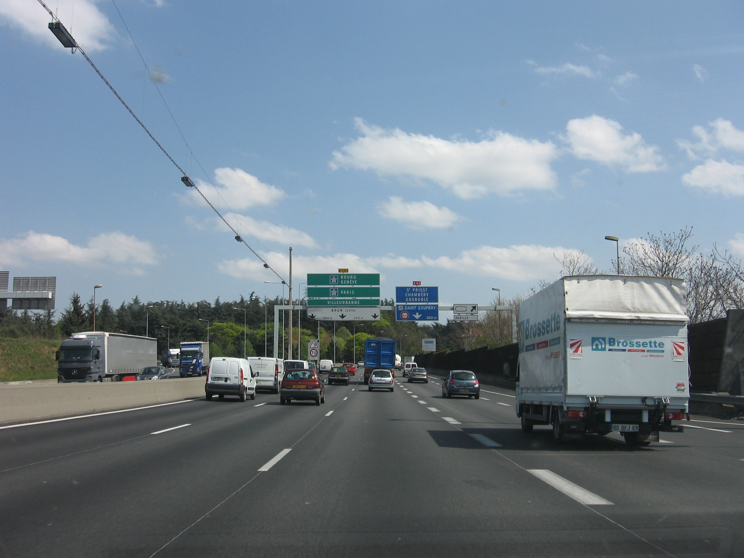 D383, Boulevard périphérique, east side of Lyon